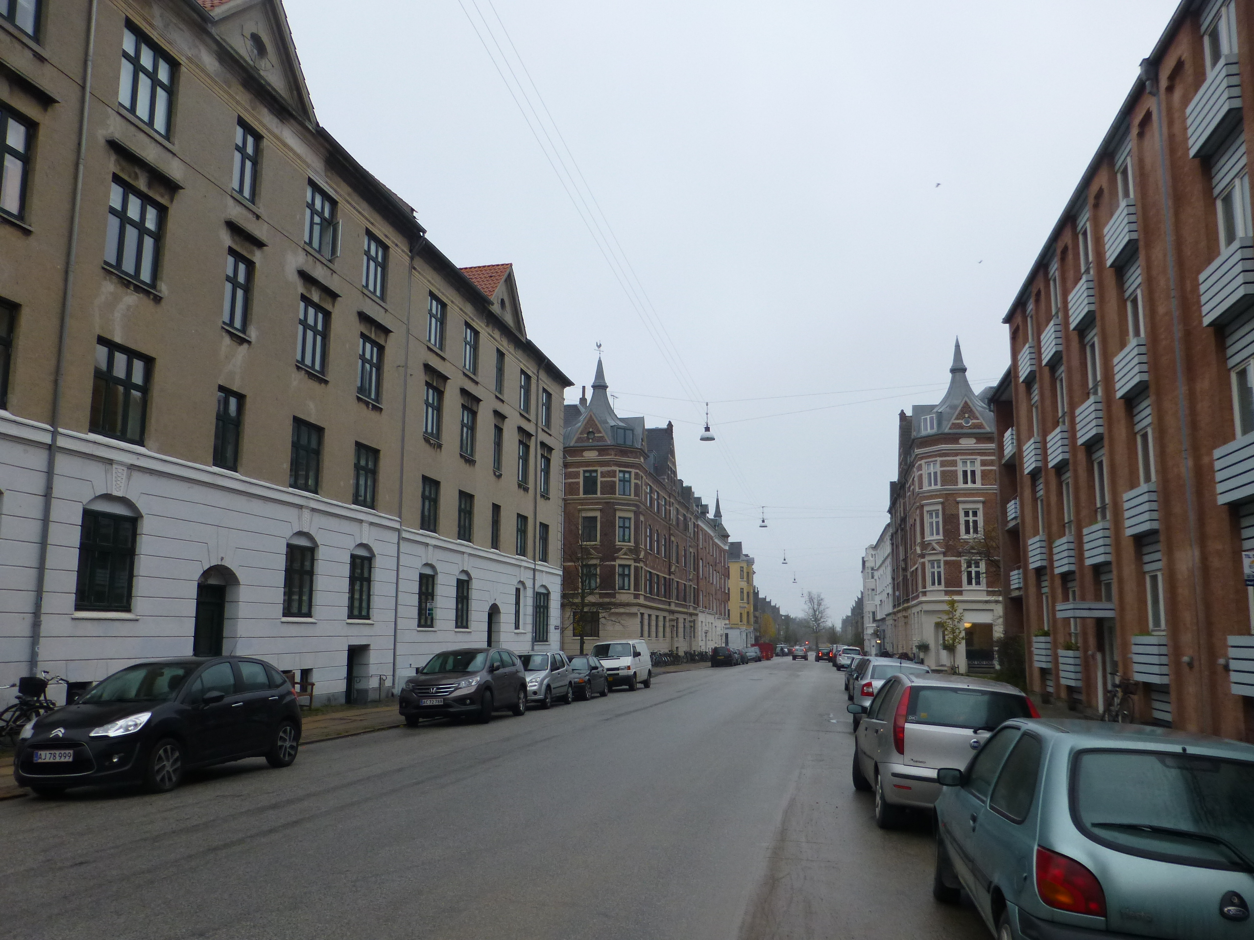 The street Kildevældsgade in Østerbro in Copenhagen.